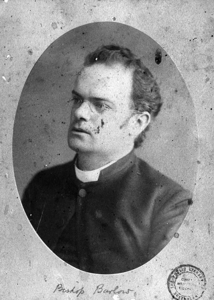 Christopher George Barlow Bishop of North Queensland 1891-1902